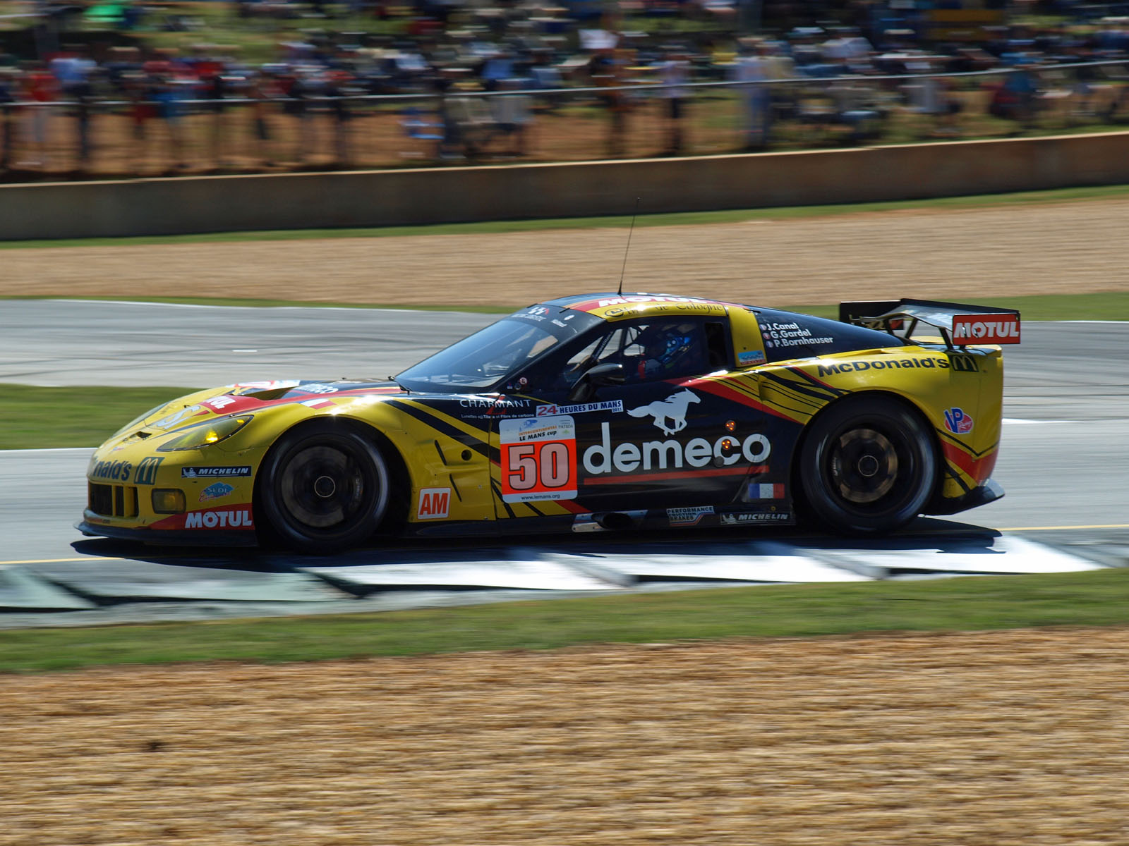 Julien Canal driving the Larbre Compétition Chevrolet Corvette C6.R in the 2011 Petit Le Mans at Road Atlanta.